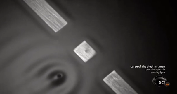 adaption from timestamp 2:53